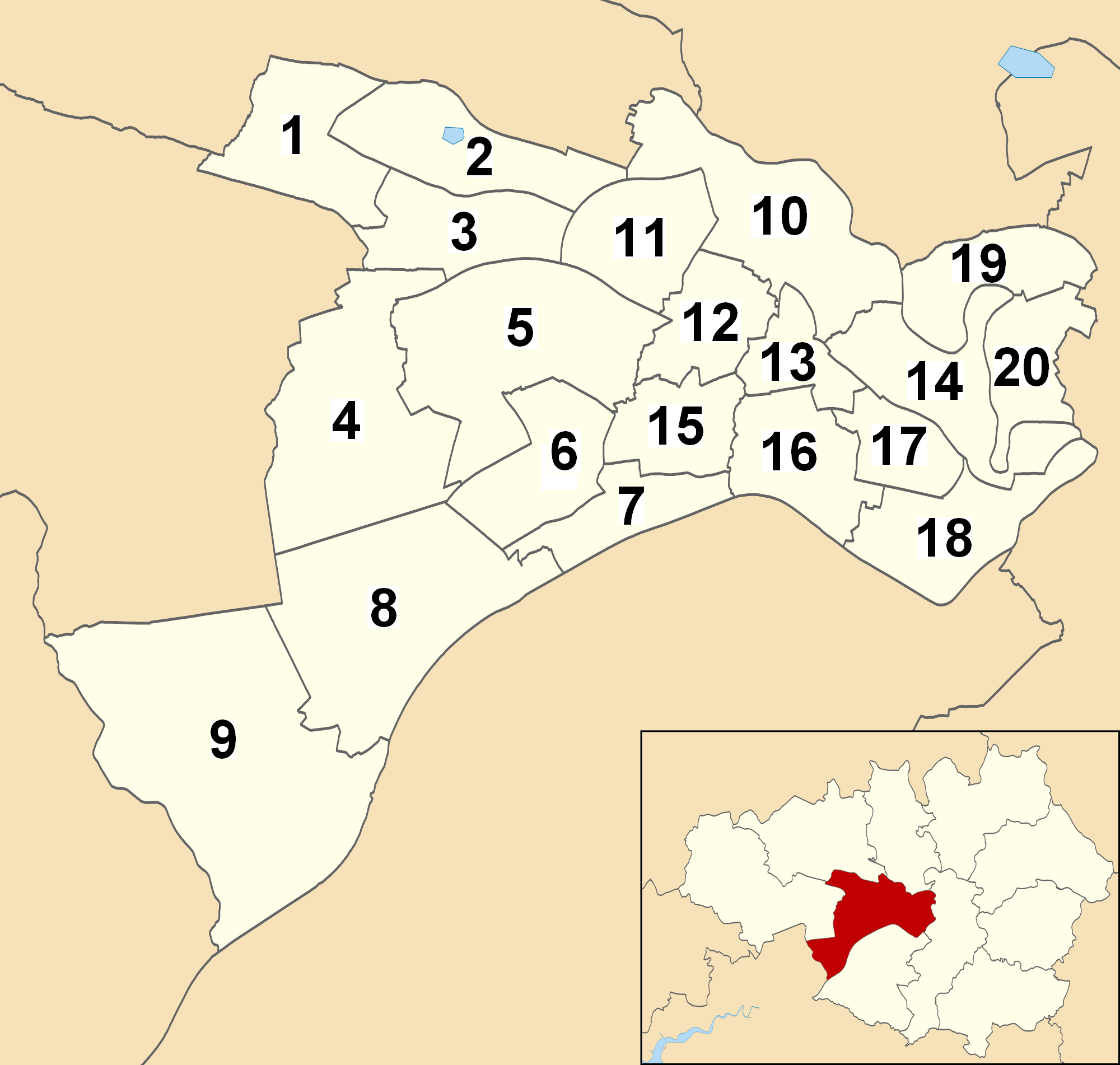 Map of Salford City Council, Greater Manchester, UK with electoral wards numbered.